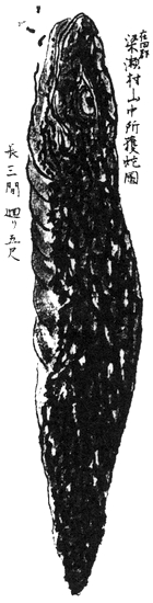 Nozuchi (Tsuchinoko) from the Yaan-sōmoku-tsūshi